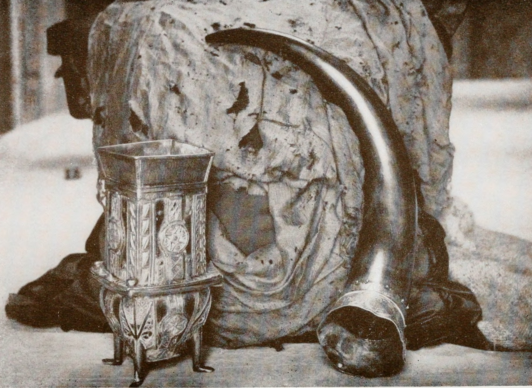 A photo of the Dunvegan Cup, Fairy Flag, and Rory Mor's Horn. This image is a cropped version of the photo which appears between pages 38-39, in the book The Macleods of Dunvegan from the time of Leod to the End of the Seventeenth Century. The photo is credited to Roderick Charles MacLeod.